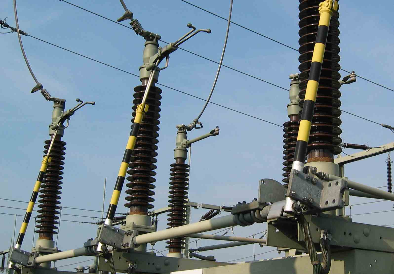 Open 110 kV disconnecting switch